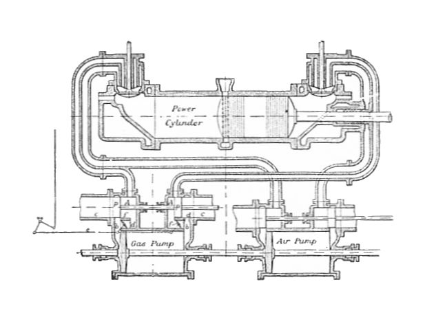 Körting gas engine cylinder, section (Rankin Kennedy, Electrical Installations, Vol III, 1903).jpg